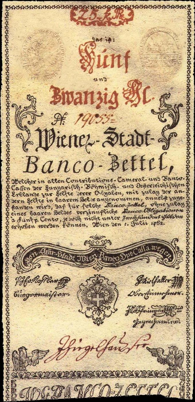 banknote for 25 Gulden Conventions-Münze issued by the Wiener Stadt-Banco (obverse)